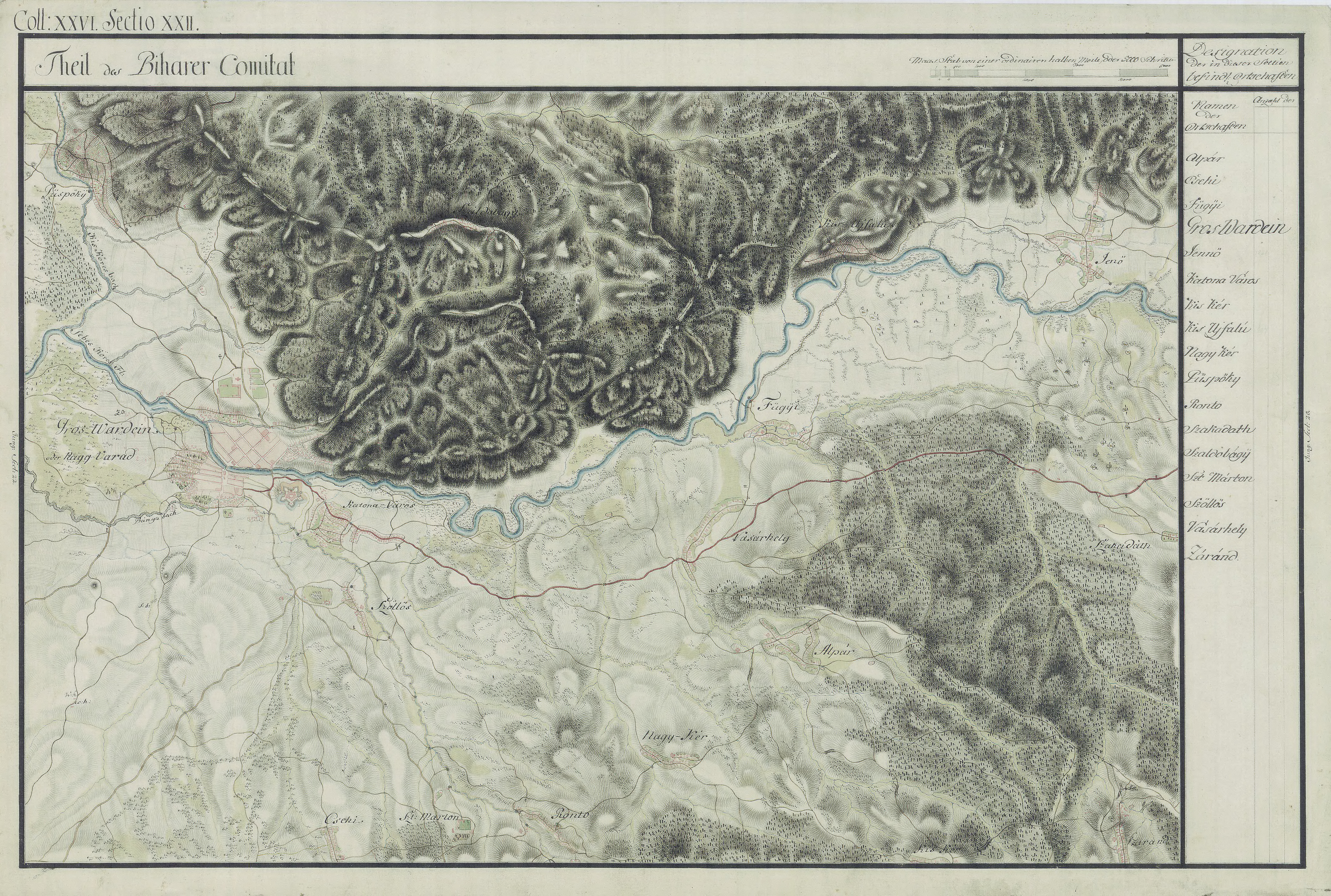 Bihor County, 1782-85. Josephinische Landesaufnahme pg.26-22